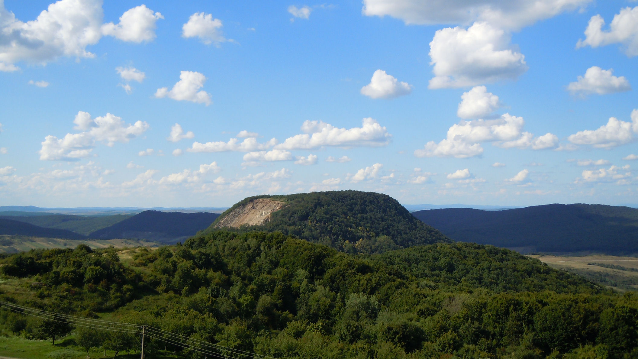 Dacian Fortress of Porolisio 01